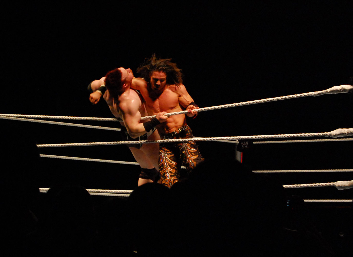 John Morrison luchando contra Sheamus